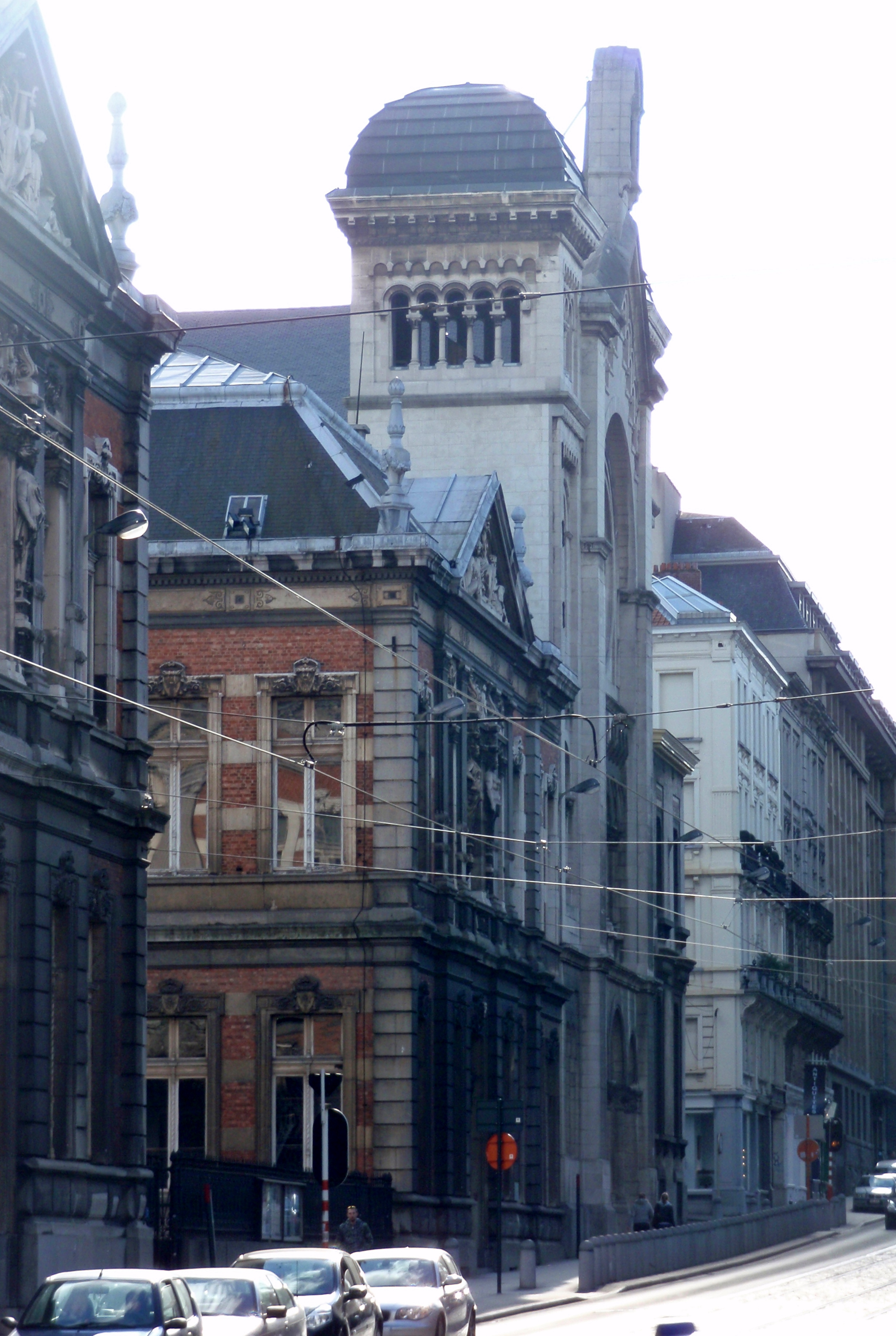 Great Synagogue of Europe is the main synagogue in Brussels, Belgium which was dedicated as a focal point for European Jews in 2008.